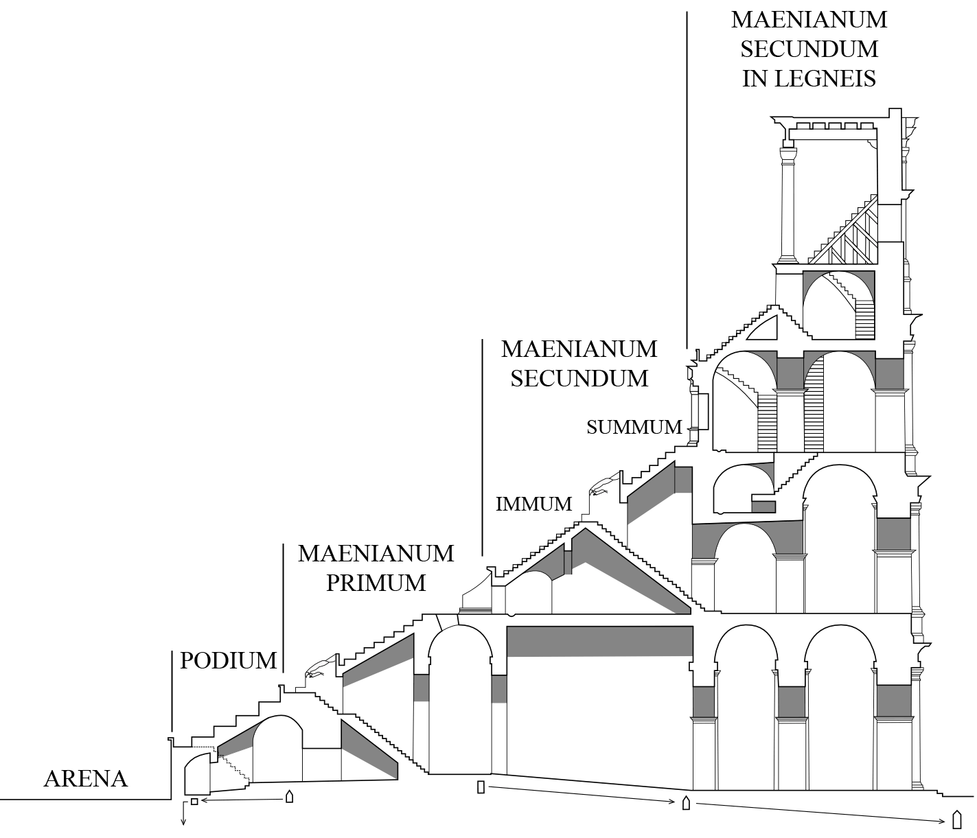 Colosseum seating profile with Latin legends.